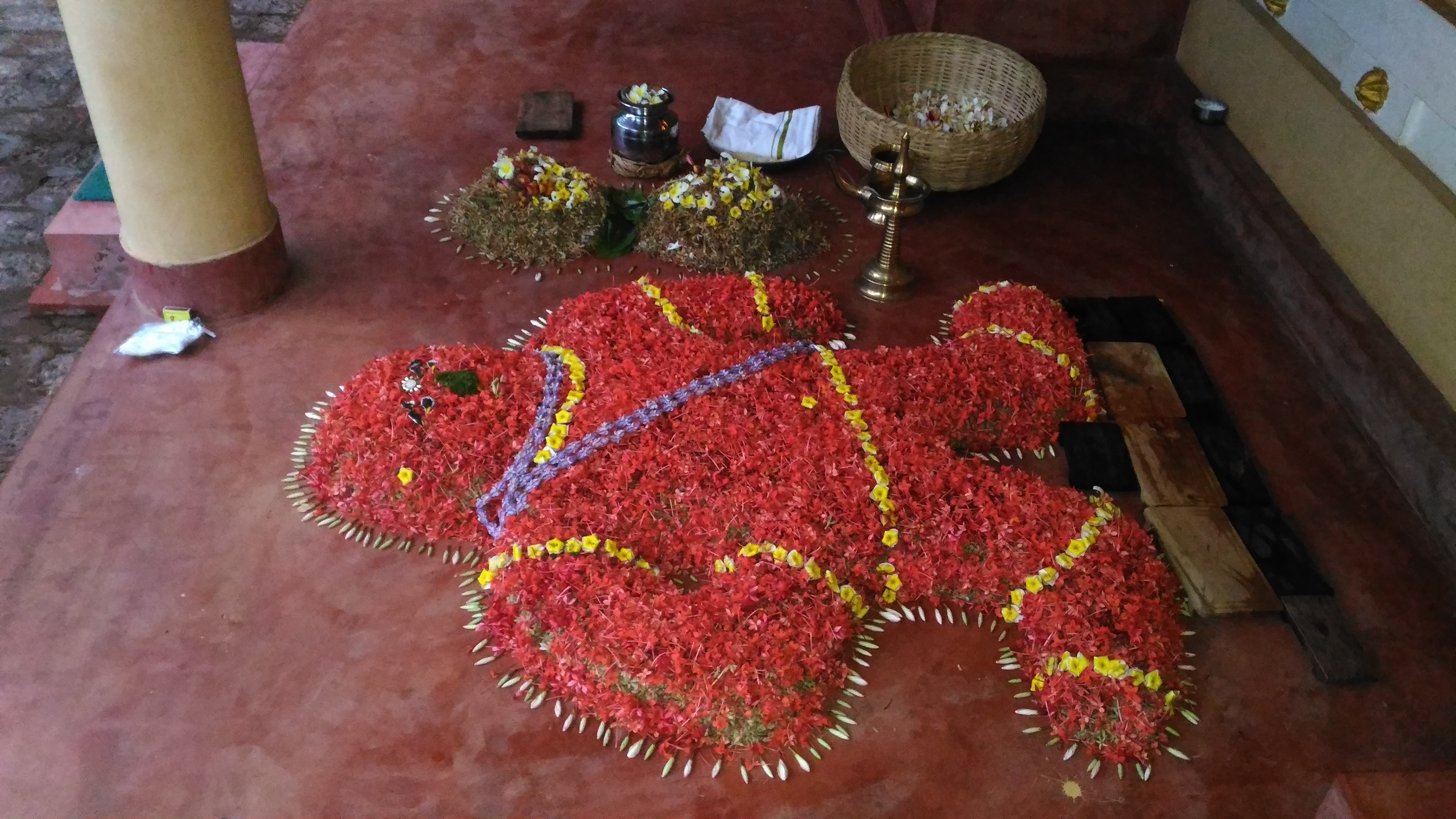 A kaman flower structure